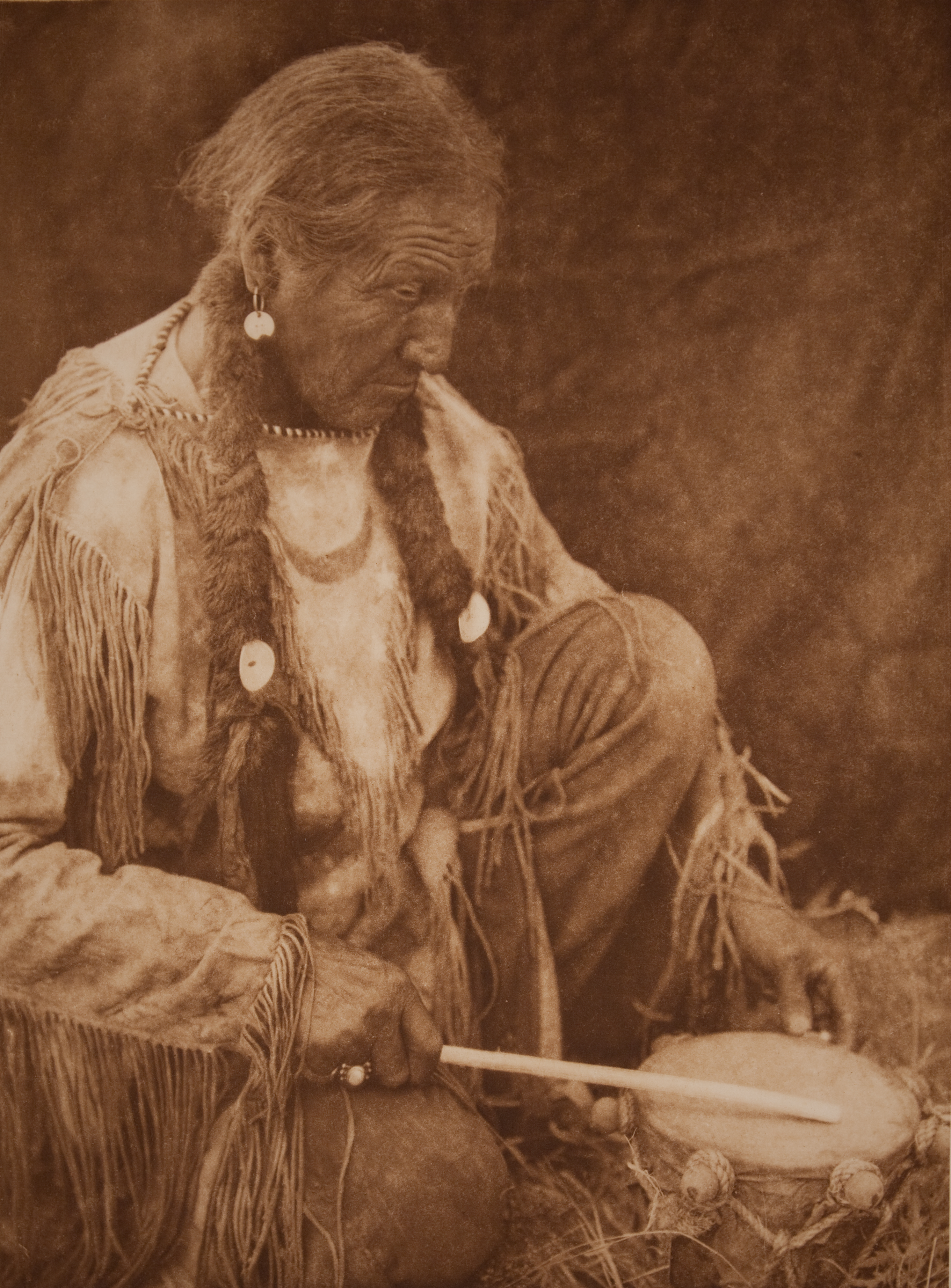 Title: Peyote Drummer Artist: Edward Sheriff Curtis Artist Bio: American, 1868 - 1952 Creation Date: 1927 Process: photogravure Credit Line: Gift of Jo and Howard Weiner Accession Number: 2007.001.043